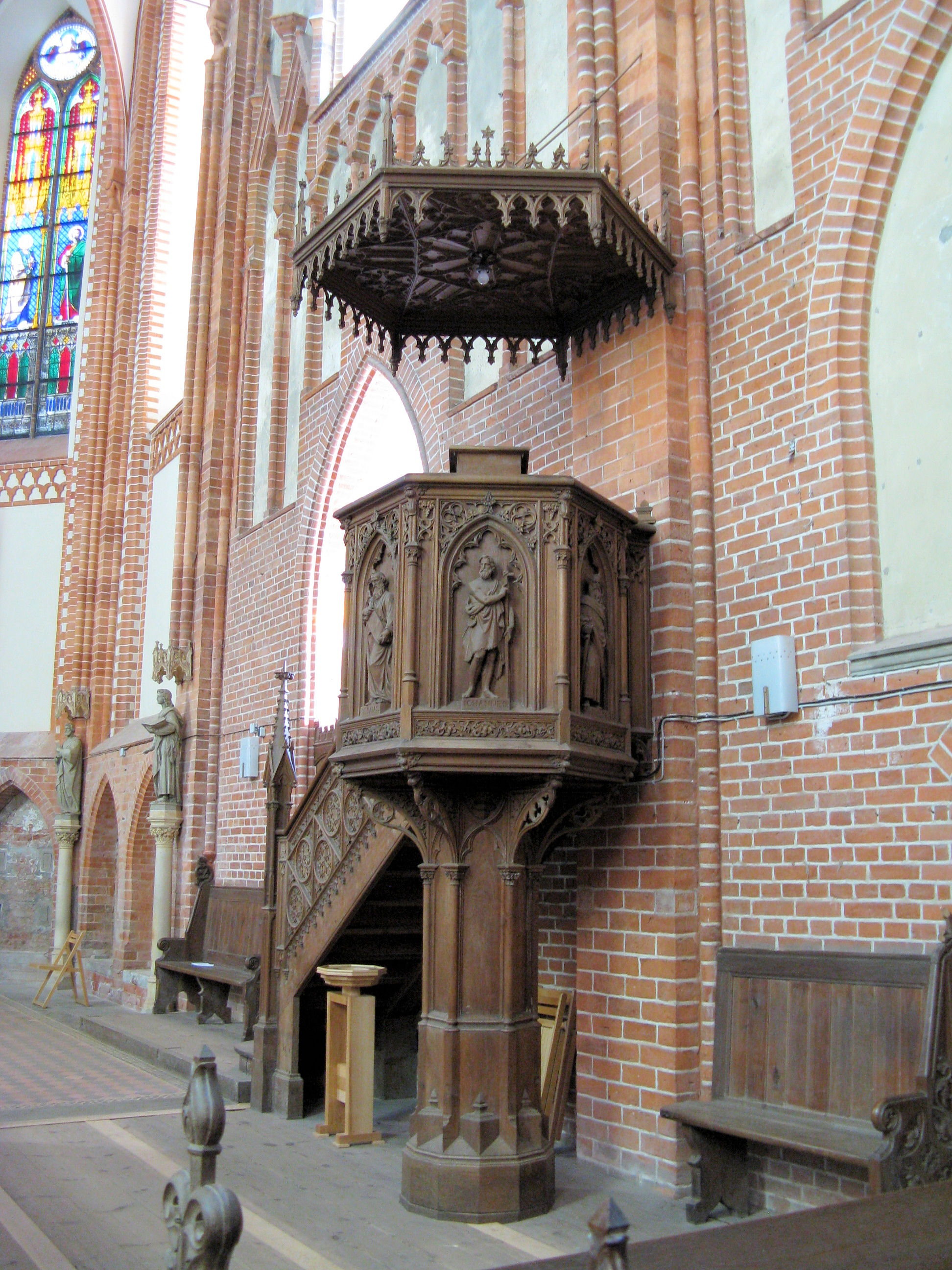 Pulpit in the church in the Monastery Dobbertin, disctrict Parchim, Mecklenburg-Vorpommern, Germany